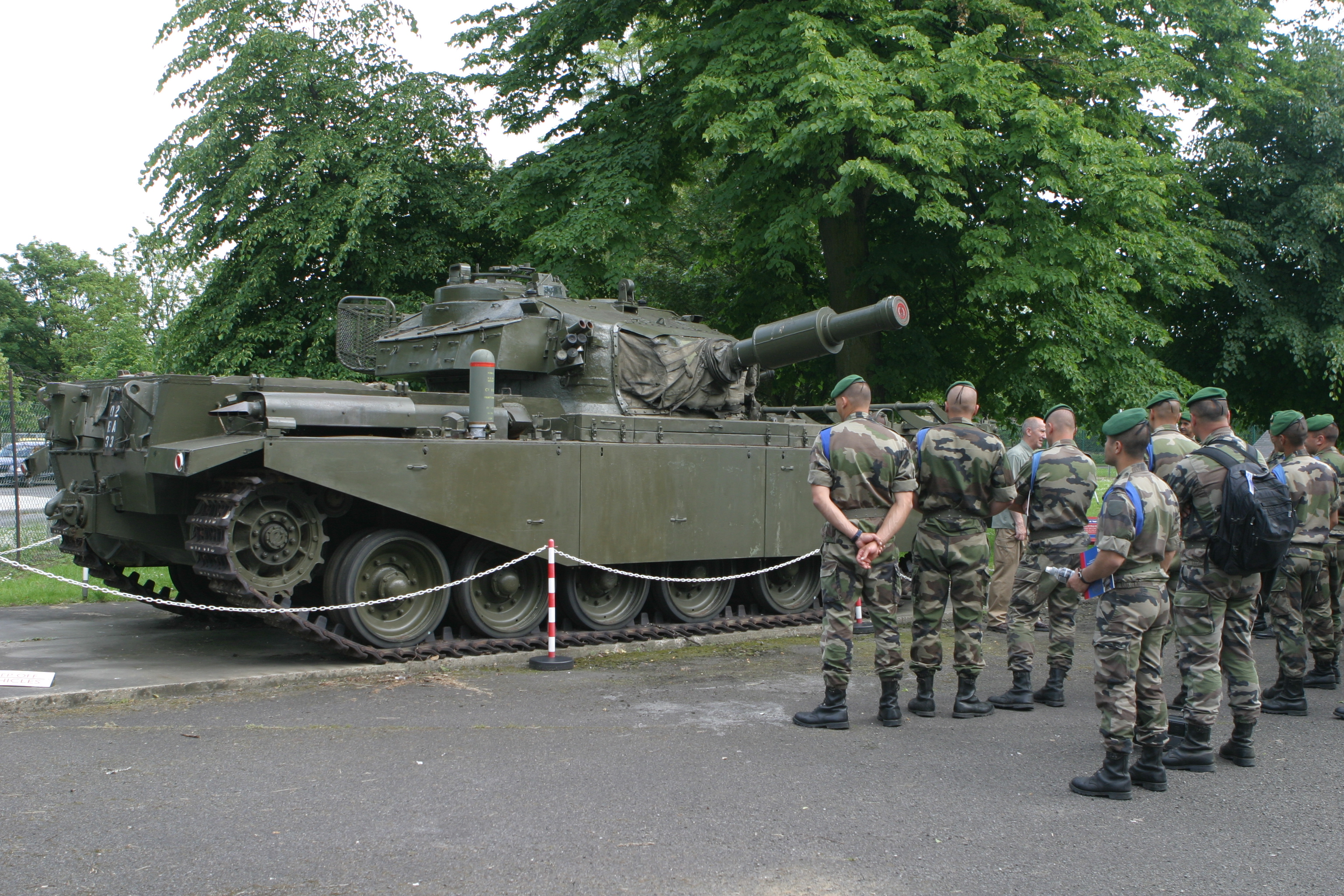 Photograph of Centurion Mk5 AVRE, reg. 02BA33, owned and displayed at the Royal Engineers Museum, Prince Arthur Road, Gillingham, Kent, UK.